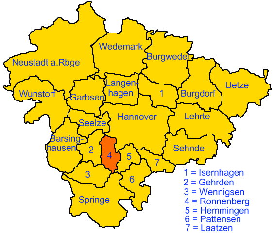 Location of Ronnenberg in Region Hannover